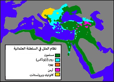 Prevailing religions of the Ottoman empire.